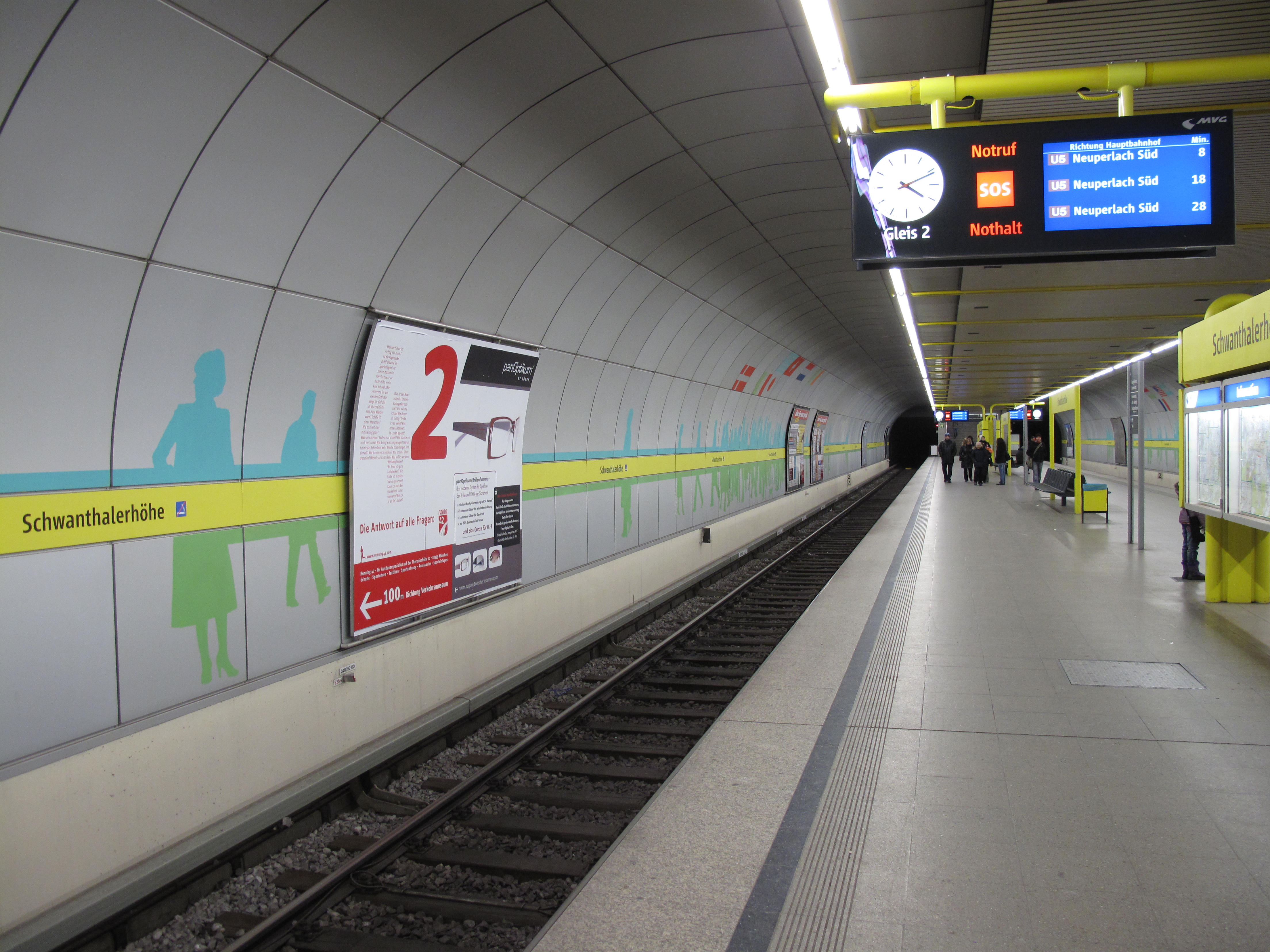 The metro-station "Schwanthalerhöhe" in Munich (district: Schwanthalerhöhe - also called: Westend) for the metro-lines U4 and U5.